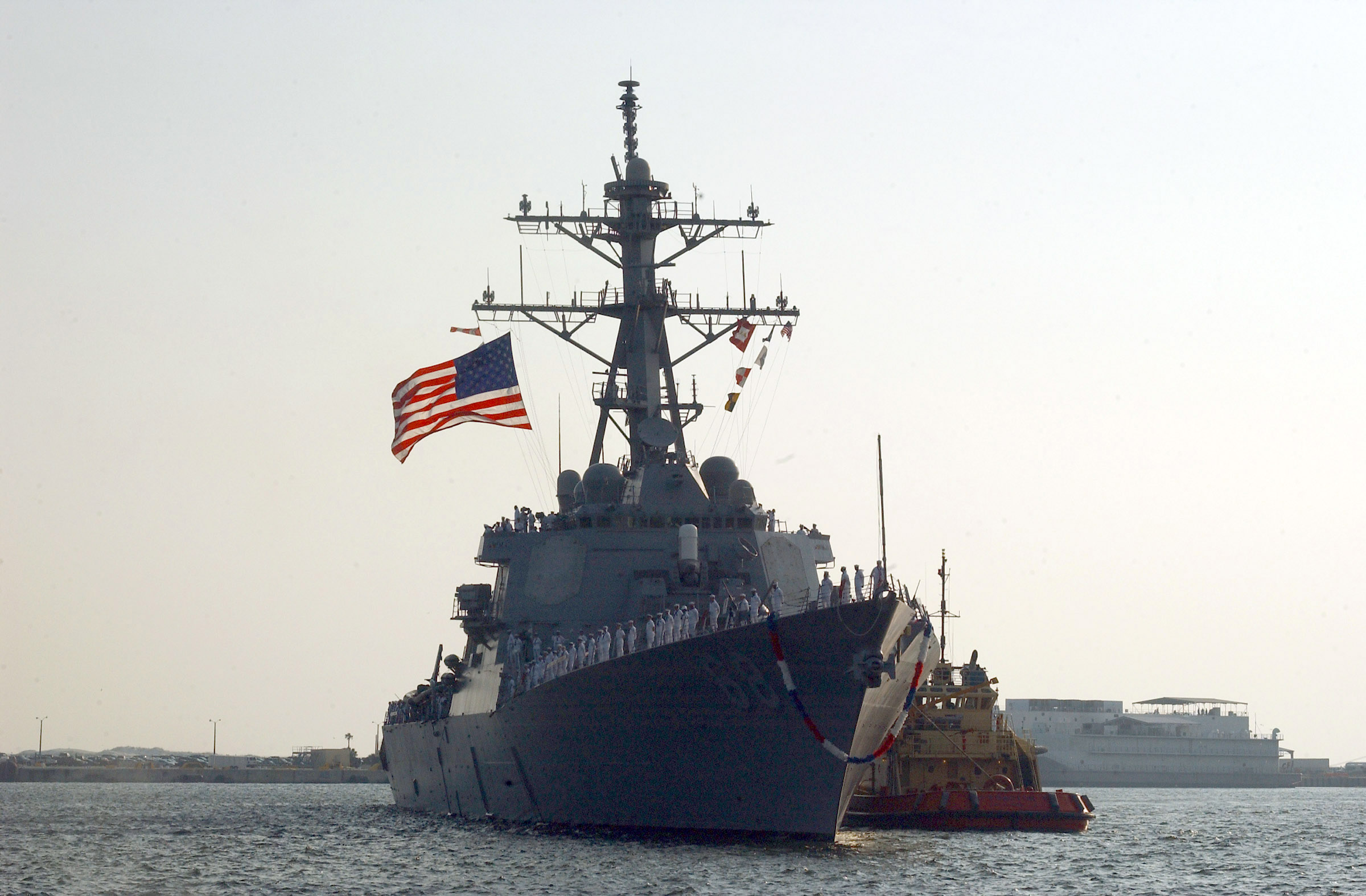 MAYPORT, Fla. (May 29, 2007) - Sailors man the rails during the homecoming of guided-missile destroyer USS The Sullivans (DDG 68). The Sullivans participated in seven multi-lateral exercises including Noble Dina and Noble Manta and operated in 6th Fleet as part of Commander, Naval Forces Europe. U.S. Navy photo by Mass Communication Specialist 2nd Class Susan Cornell (RELEASED)